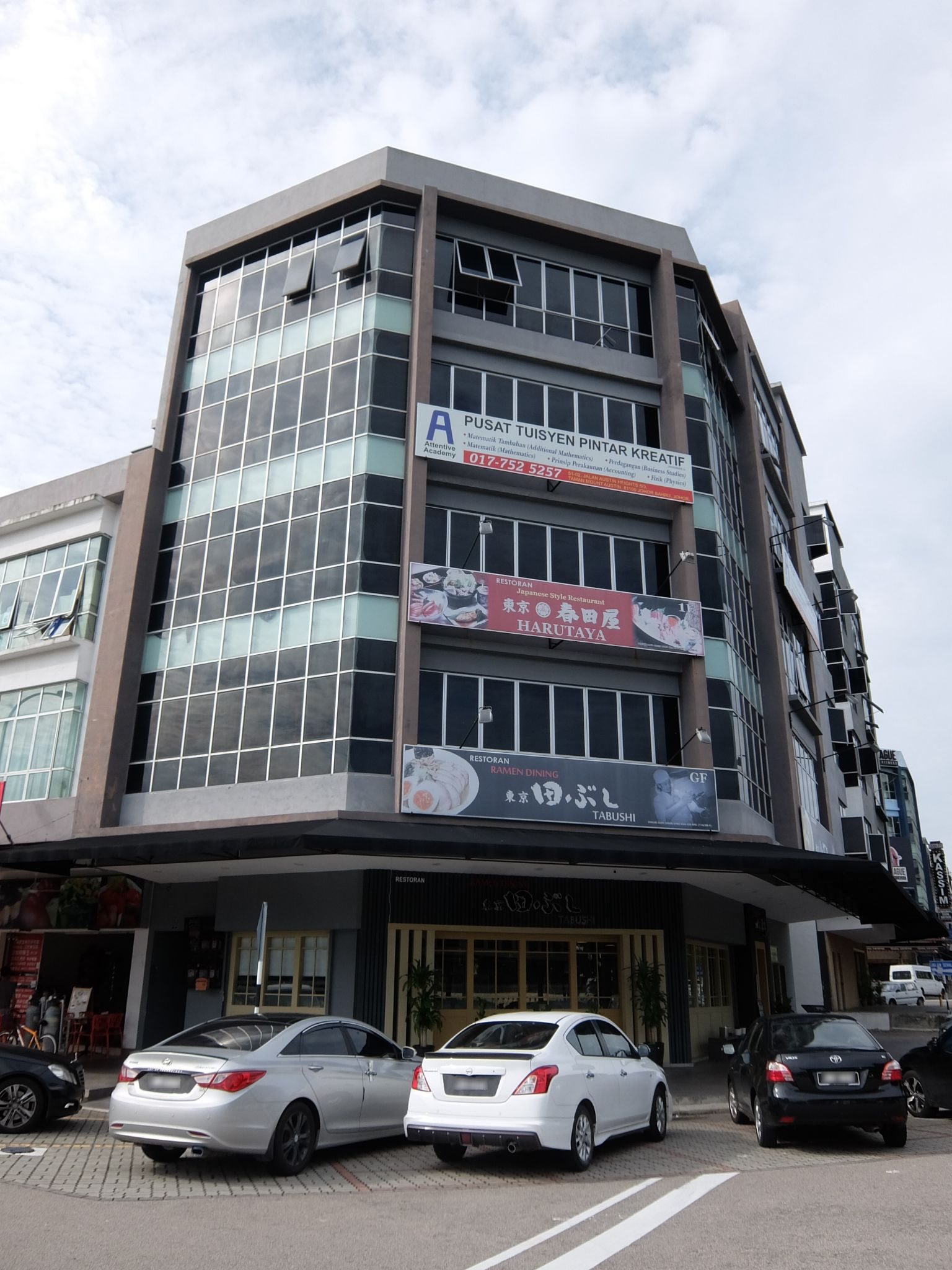 Tabushi Ramen Dining Restaurant, Mount Austin, Johor Bahru, Johor, Malaysia